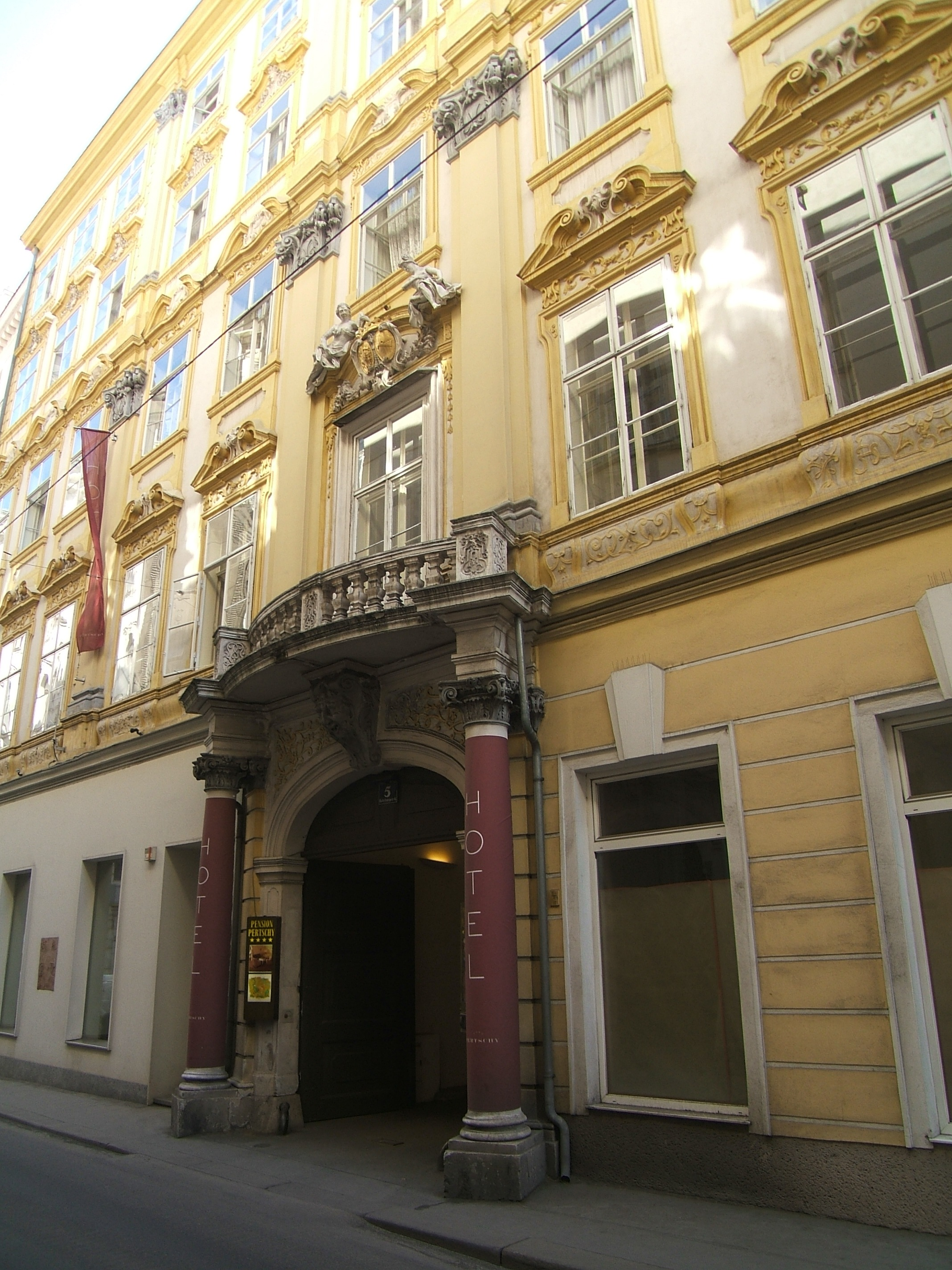 Palais Cavriani in Vienna 1st district Habsburggasse 5